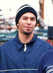 Primus band in Kopenhagen Primus at Langelinie, Copenhagen, Denmark in the summer of 1998. From left to right: Les Claypool, Bryan Mantia and Larry LaLonde. They played a concert the same day at Store Vega, Copenhagen.